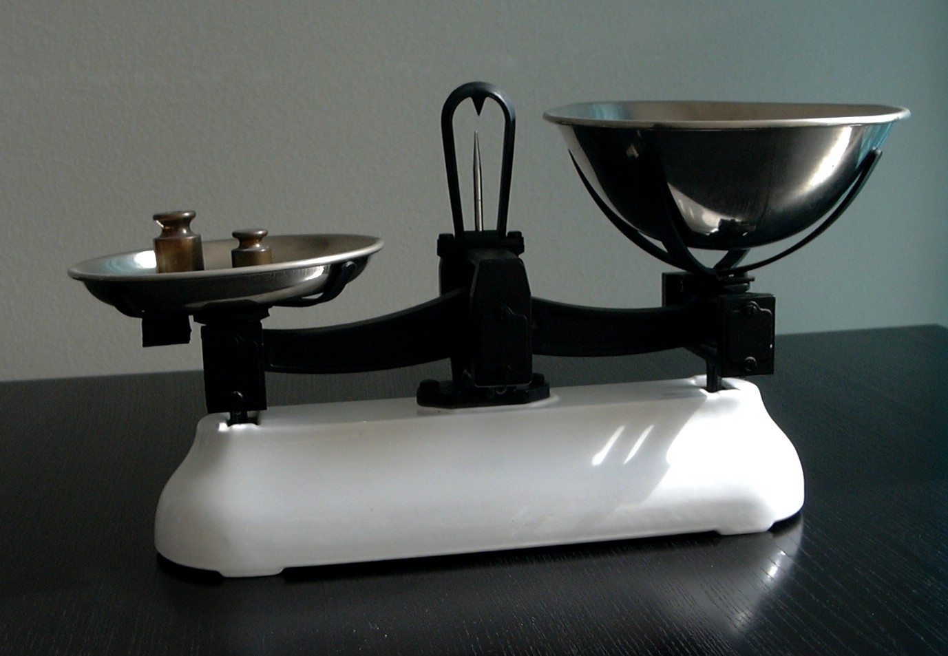 Roberval Balance (white) made well into the 1970s